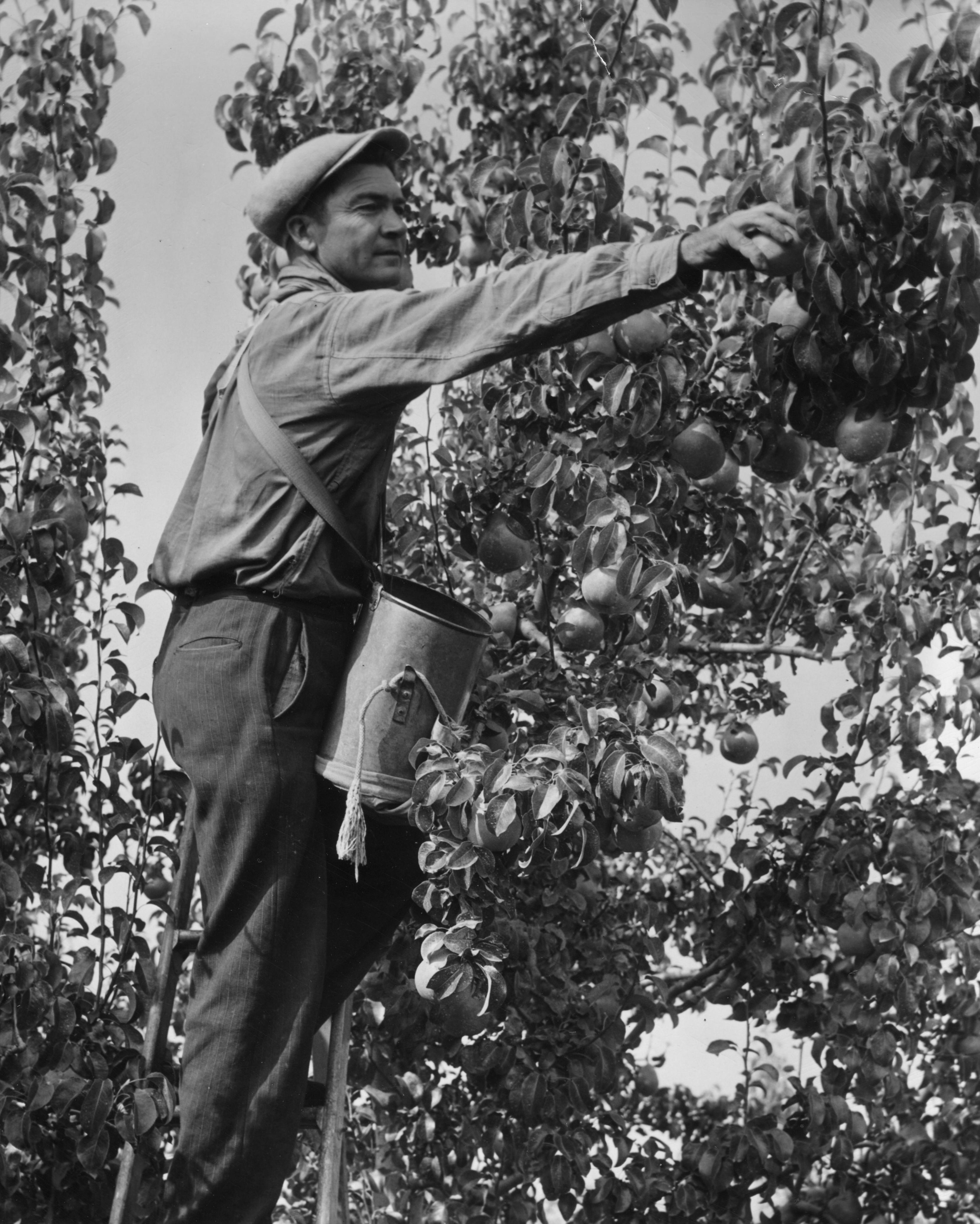 Description/Notes: A migratory fruit picker high on a ladder is picking Comice pears at the Illihee Orchards near Medford, Oregon (1944). Original Collection: Harriet's Collection Item Number: HC0972 You can find this image by searching for the item number by clicking here. Want more? You can find more digital resources online. We're happy for you to share this digital image within the spirit of The Commons; however, certain restrictions on high quality reproductions of the original physical version may apply. To read more about what “no known restrictions” means, please visit the Special Collections & Archives website, or contact staff at the OSU Special Collections & Archives Research Center for details.